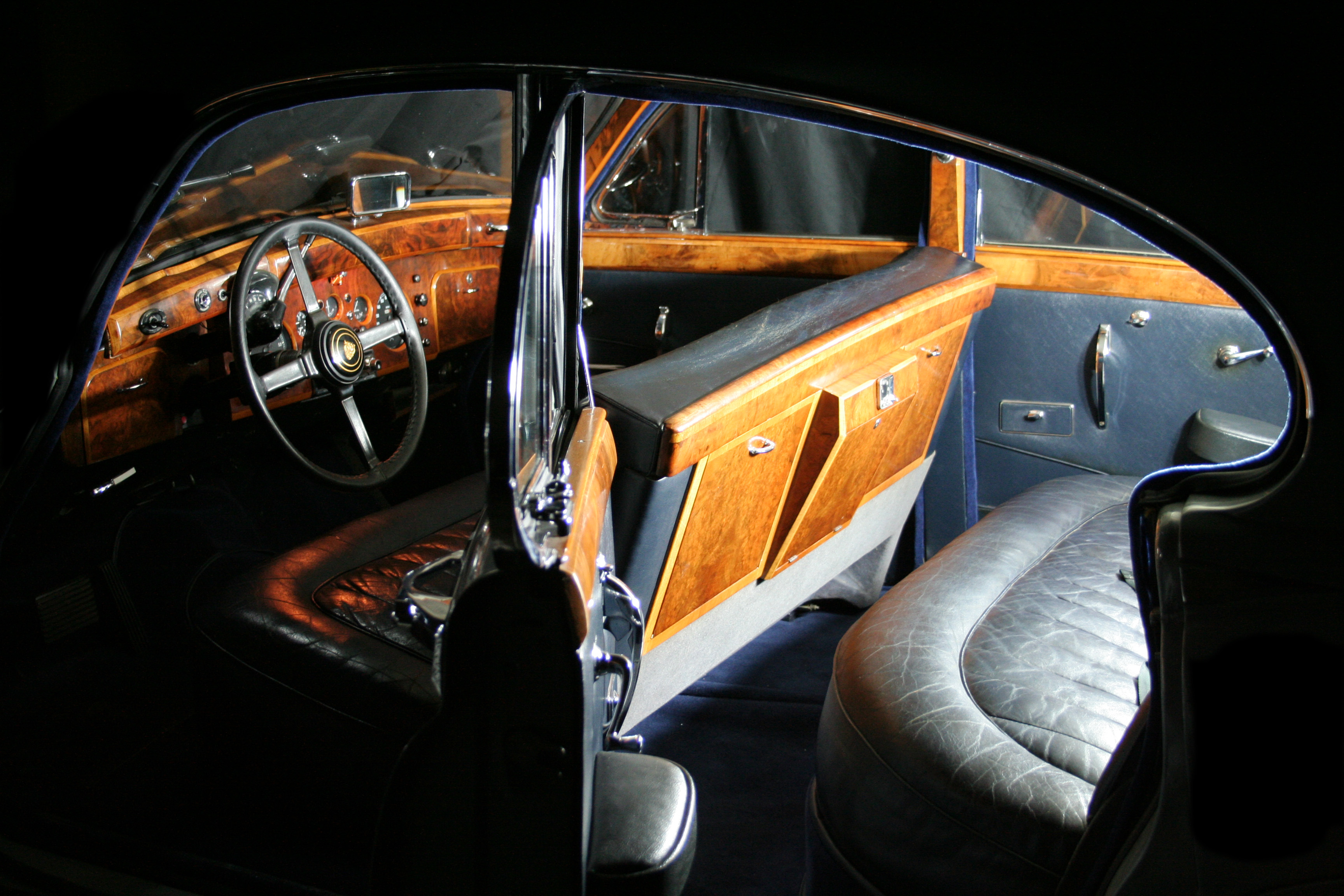 1960 Jaguar MK IX interior